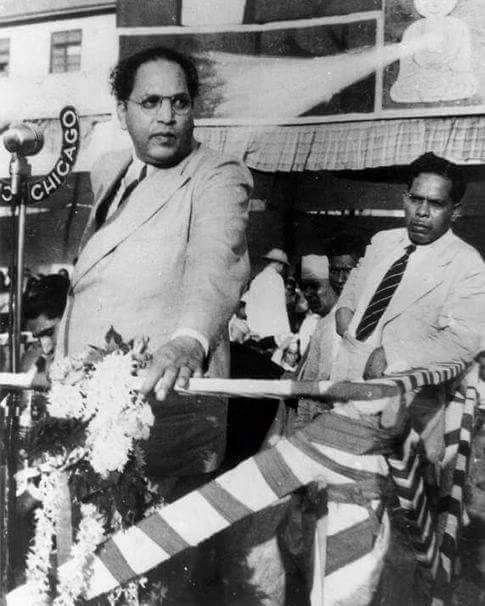 Dr. Babasaheb Ambedkar delivering speech about renouncing Hinduism at Yeola, Nashik on 13 Oct, 1935